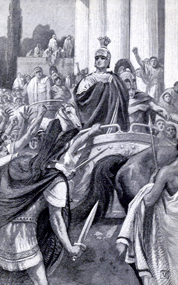 This elementary history of Rome presents short stories of the great heroes, mythical and historical, from Aeneas and the founding of Rome to the fall of the western empire. Around the famous characters of Rome are graphically grouped the great events with which their names will forever stand connected. Vivid descriptions bring to life the events narrated, making history attractive to the young, and awakening their enthusiasm for further reading and study.